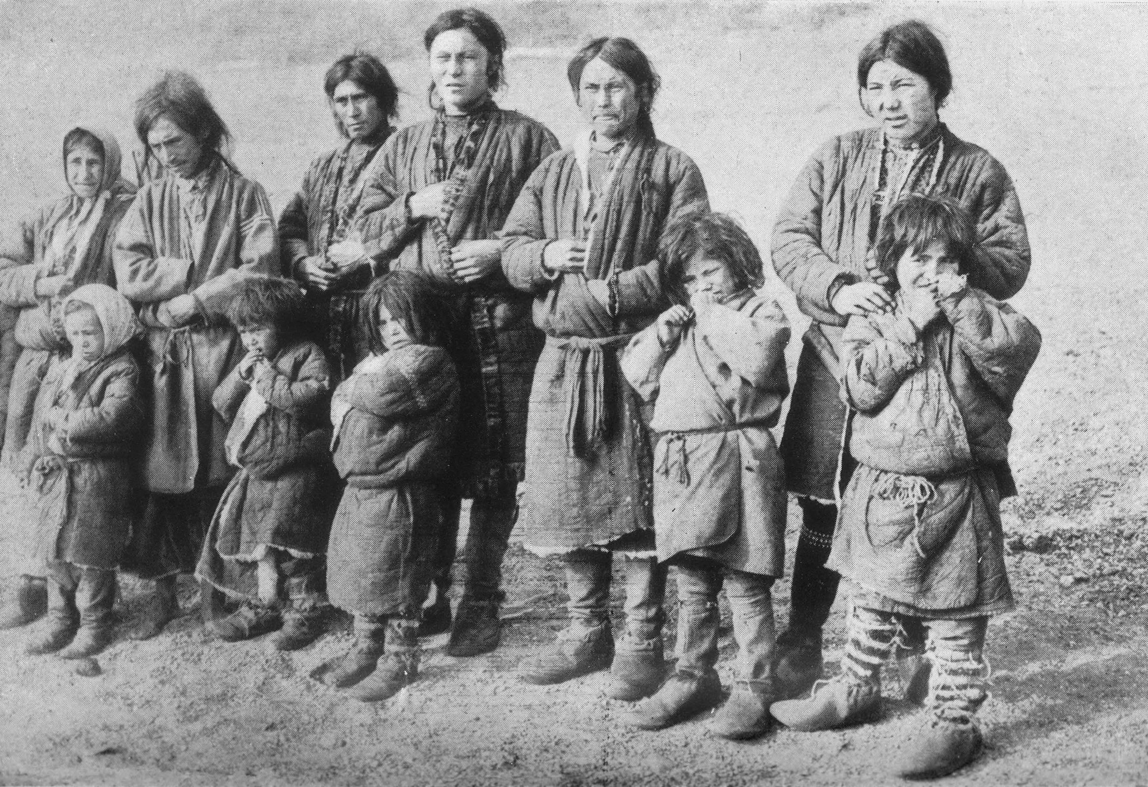 Men and children of the Yenisei-Ostiaks